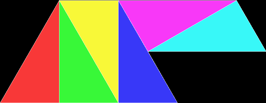 A hexadrafter, or shape created from six 30-60-90° triangles.